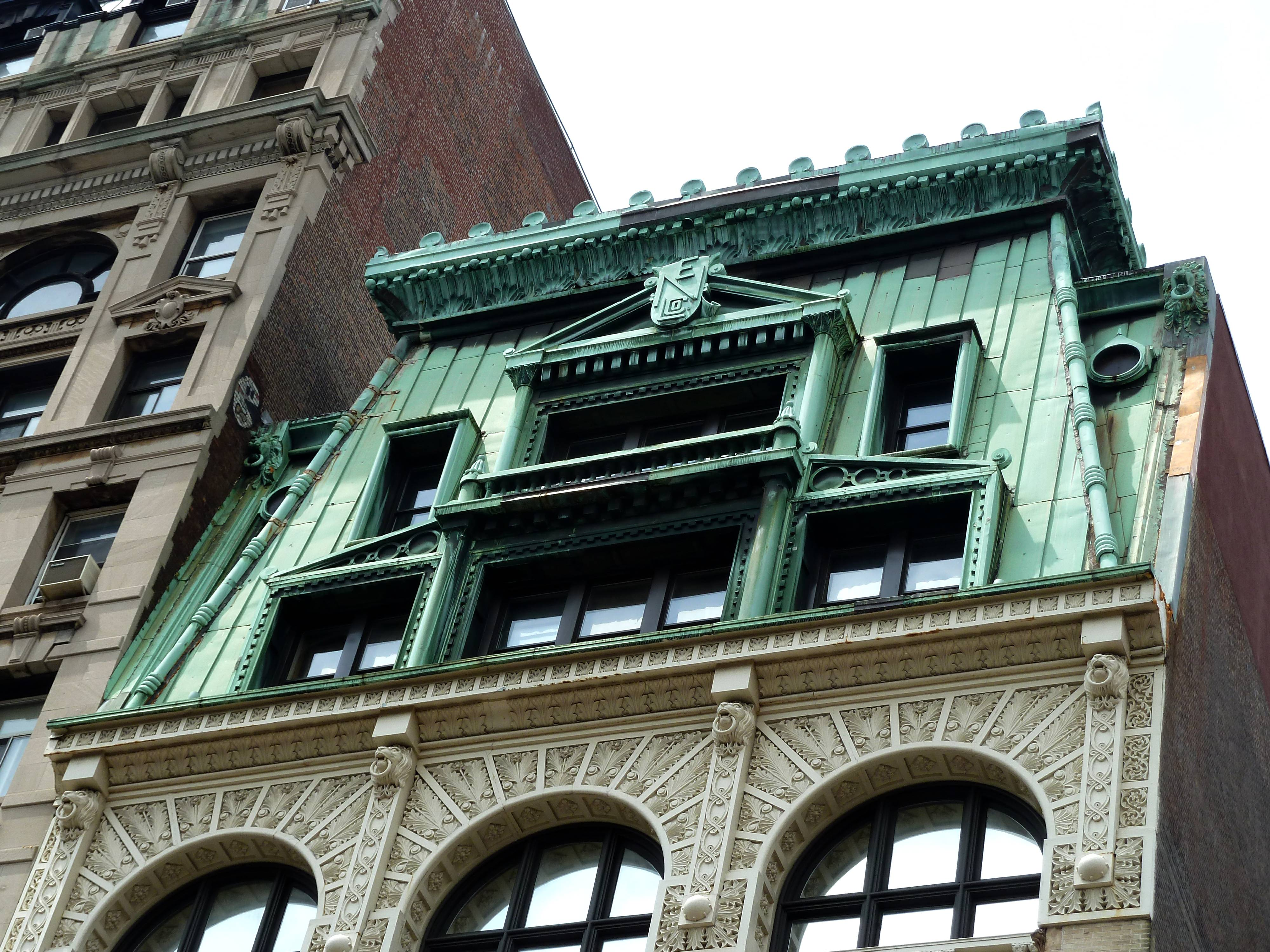 New Era Building, detail of copper-front mansard roof and ornamental ironwork, 495 Broadway, New York (see also File:New Era Bldg 1.jpg)